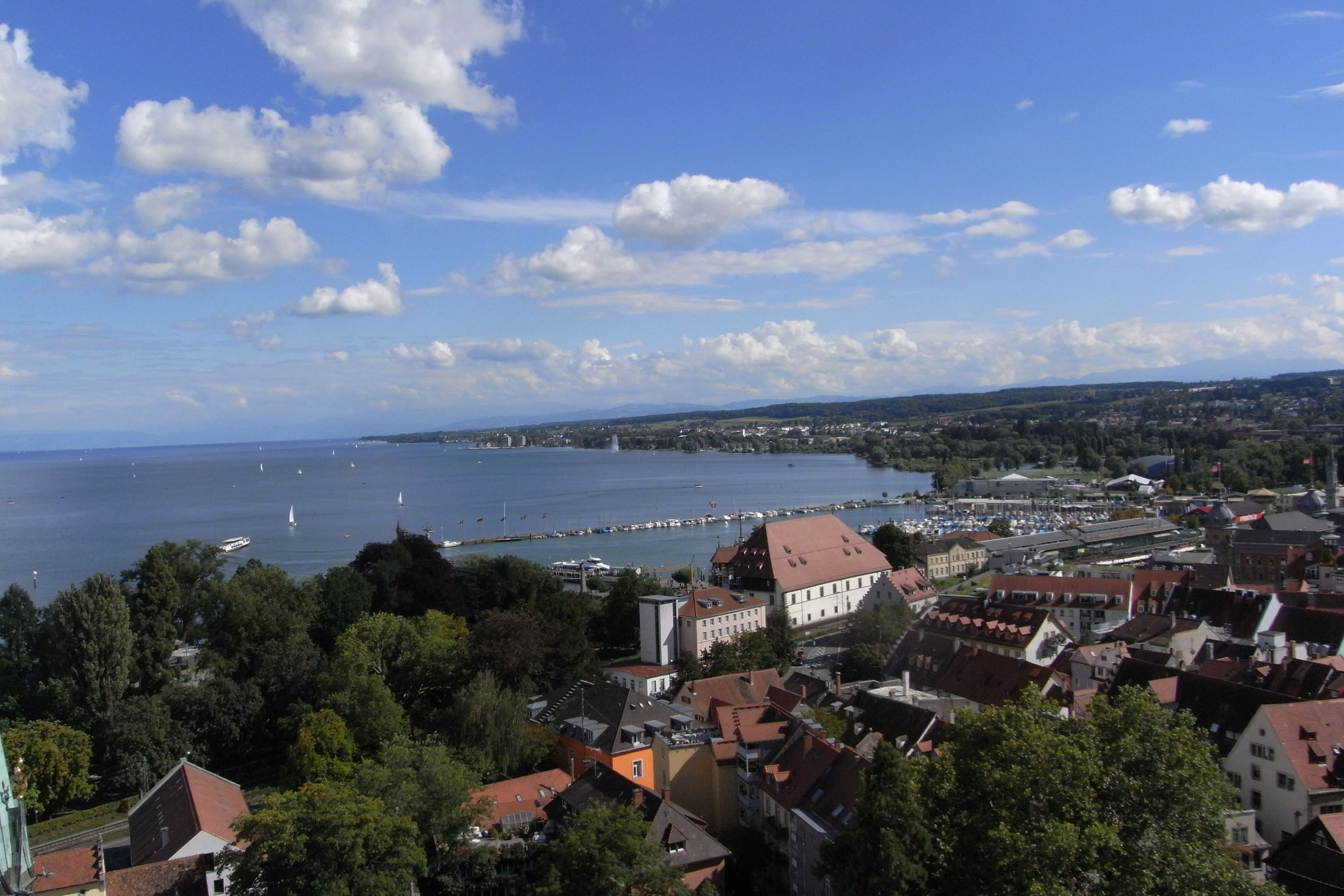 View from Cathedral of Constance (Münster Unserer Lieben Frau zu Konstanz)